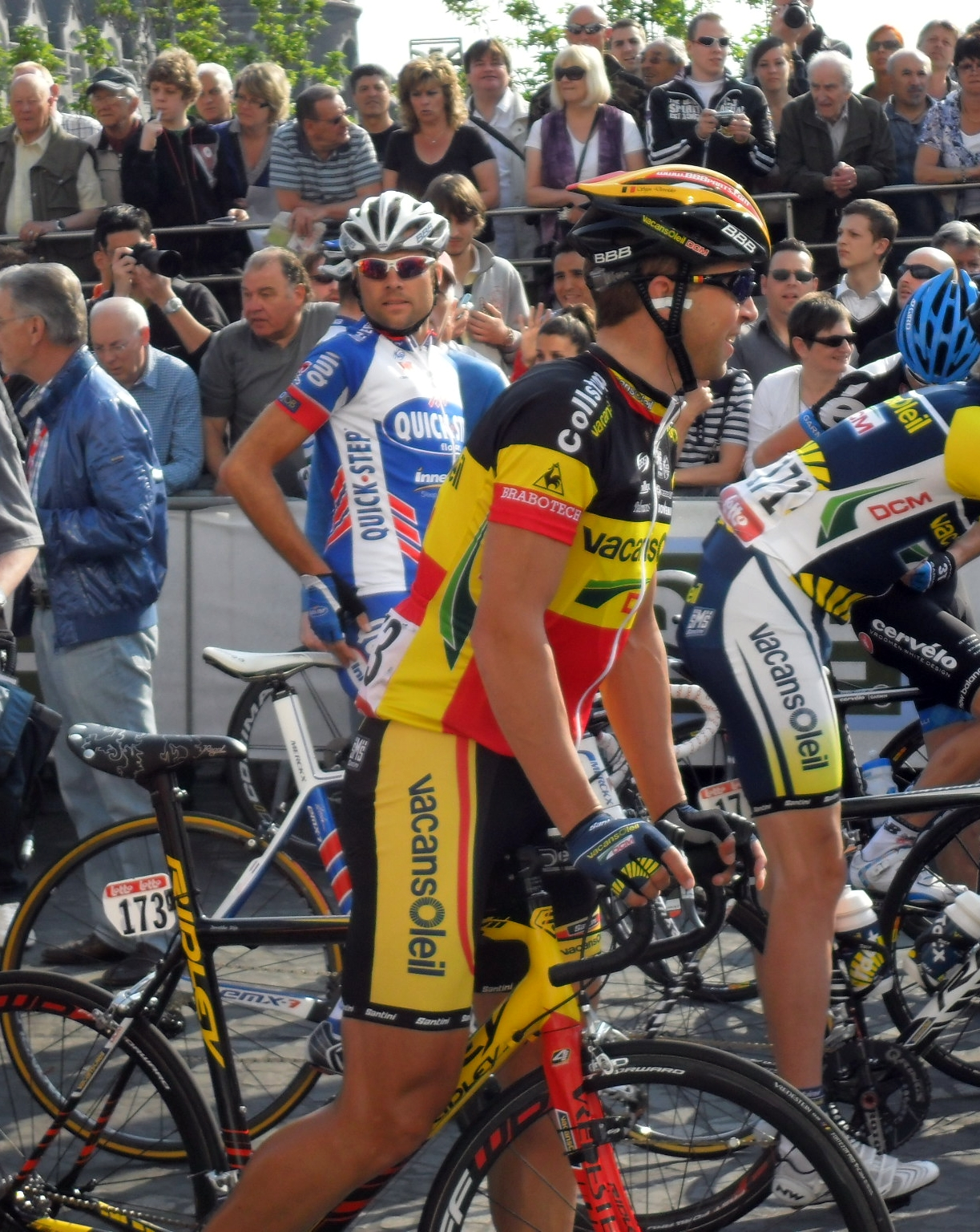 Stijn Devolder on Liège-Bastogne-Liège 2011 start line